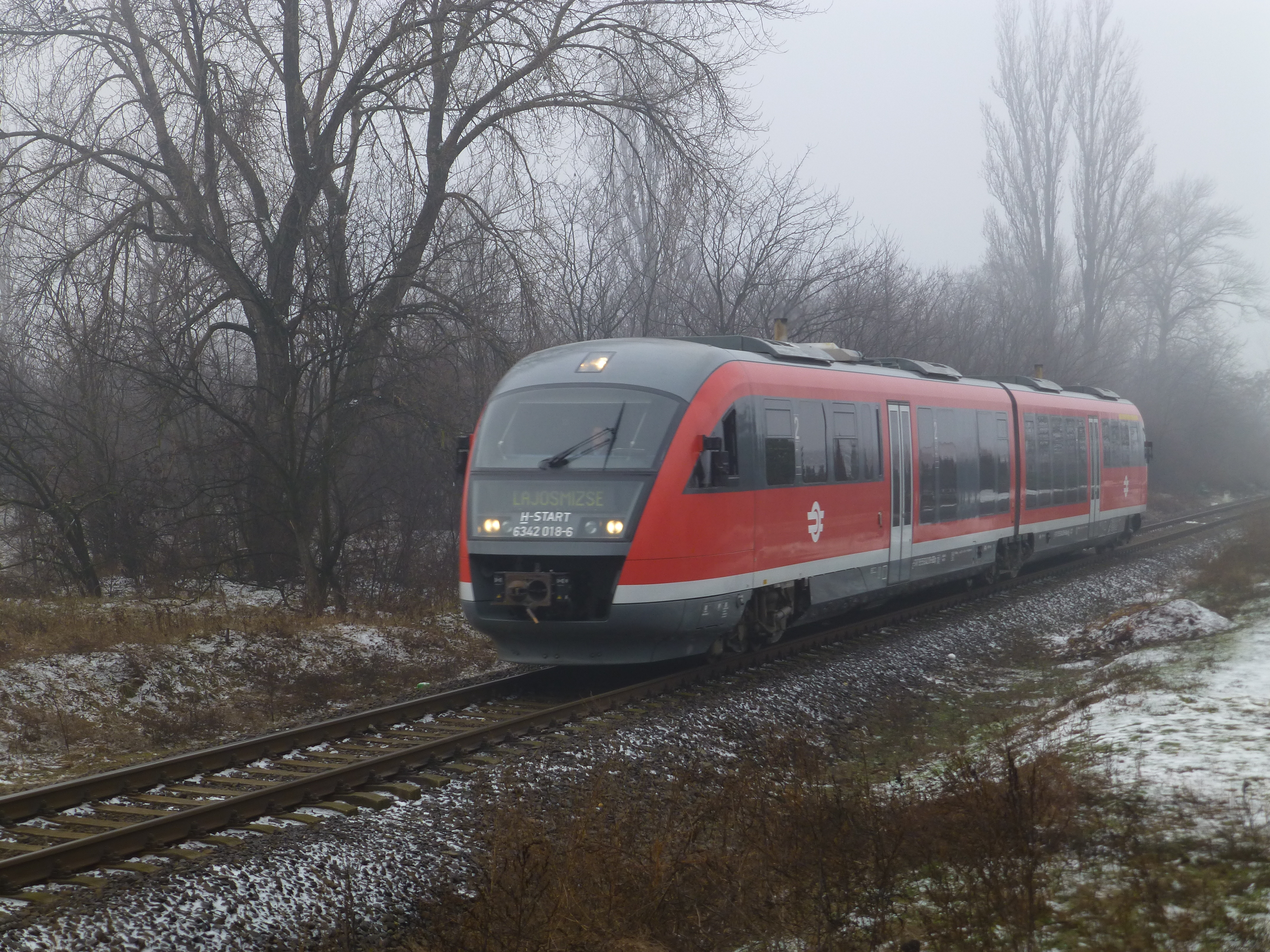 Train no. 2932 of the MÁV-Start leaving Hernád, Hungary